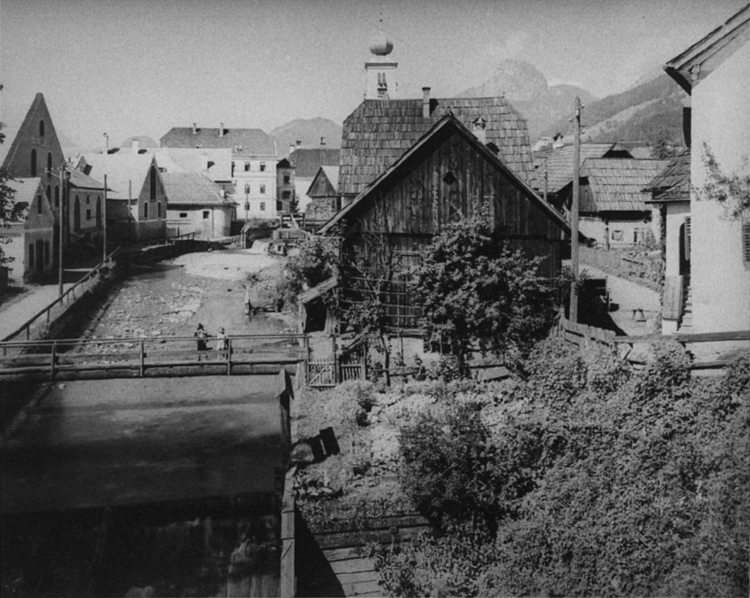 Petschar, Friedlmeier, Steiermark in alten Fotografien, Ueberreuther Verlag Wien. Scanprojekt Community Projektbudget 2012 This scan or this PDF-file was created within the GLAM-project Bookscanning, supported by Wikimedia Germany and Wikimedia Austria as a part of the community-project to capture books, documents and pictures which are not eligible to copyright or for which the copyright has expired. This document describes or depicts an object which is located in Austria today. Texts are written German language. Send requests for uncompressed scans to Hubertl. This work is in the public domain in its country of origin and other countries and areas where the copyright term is the author's life plus 100 years or less. You must also include a United States public domain tag to indicate why this work is in the public domain in the United States. This file has been identified as being free of known restrictions under copyright law, including all related and neighboring rights.